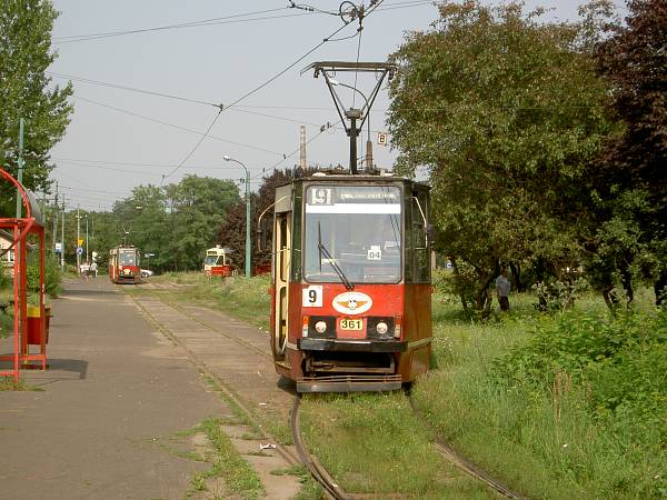 105N Type car on Chebzie loop